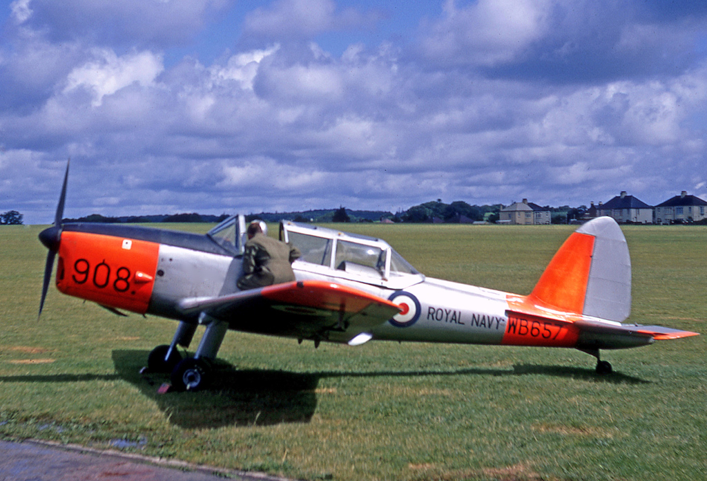 De Havilland Canada DHC-1 Chipmunk T.10 WB657 of the Royal Navy at Plymouth Roborough airport in 1969